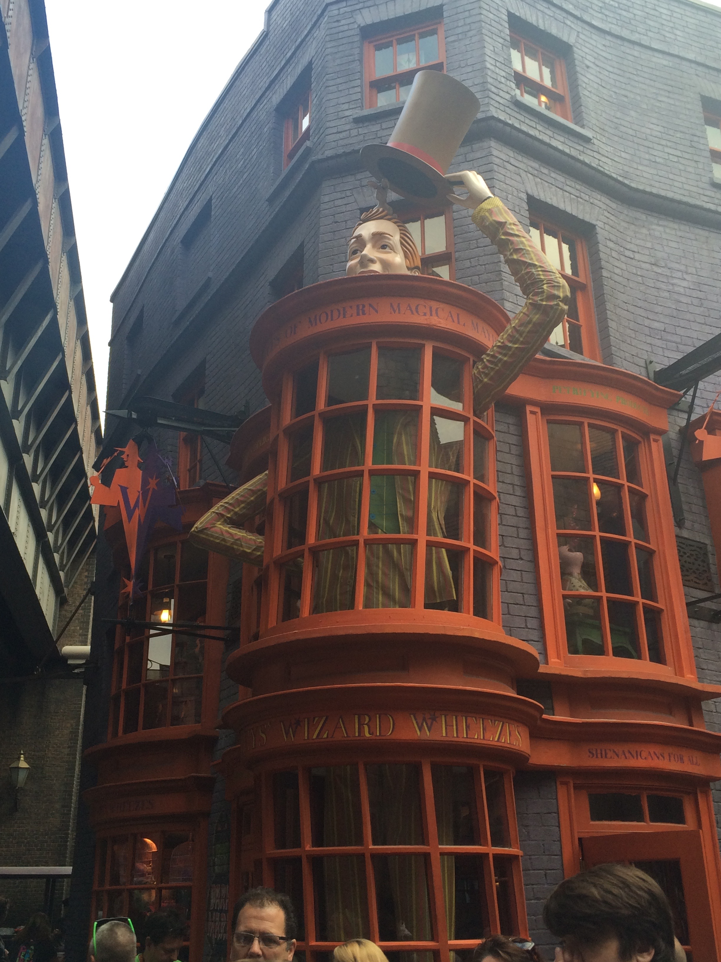 The Weasley twins' joke shop at The Wizarding World of Harry Potter in Universal Studios Florida.